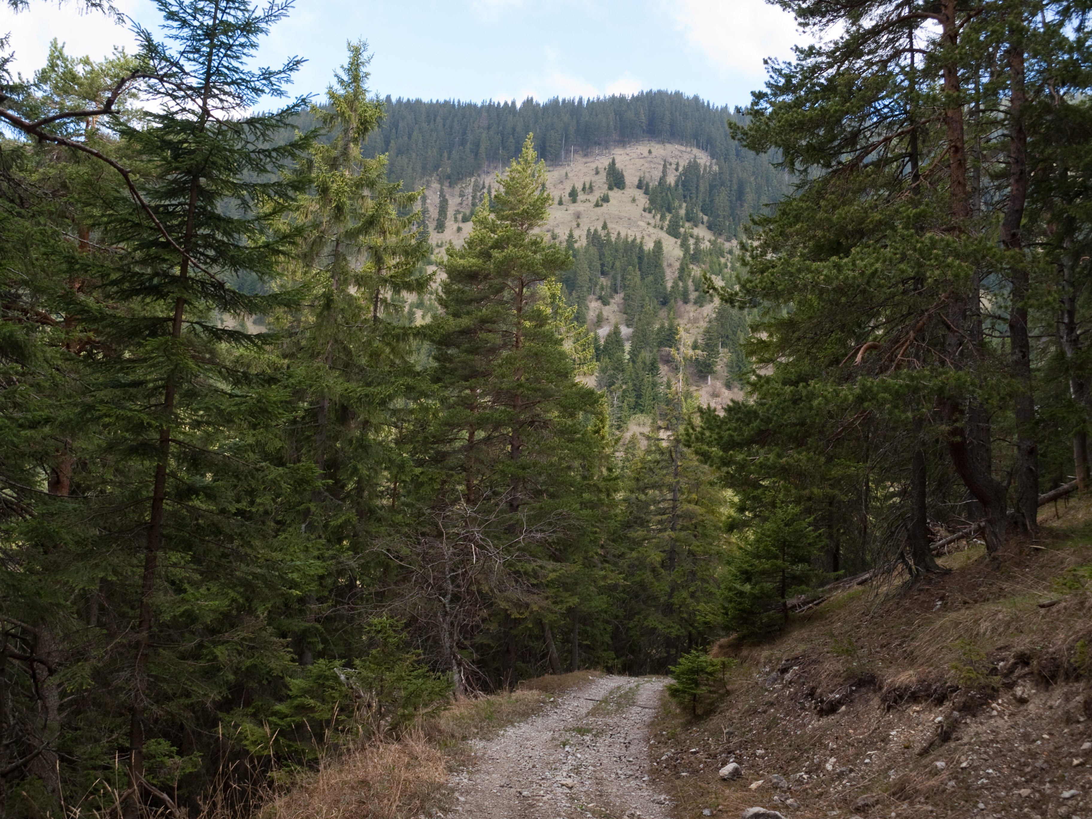 The road in Šanková (Starej vody) valley.